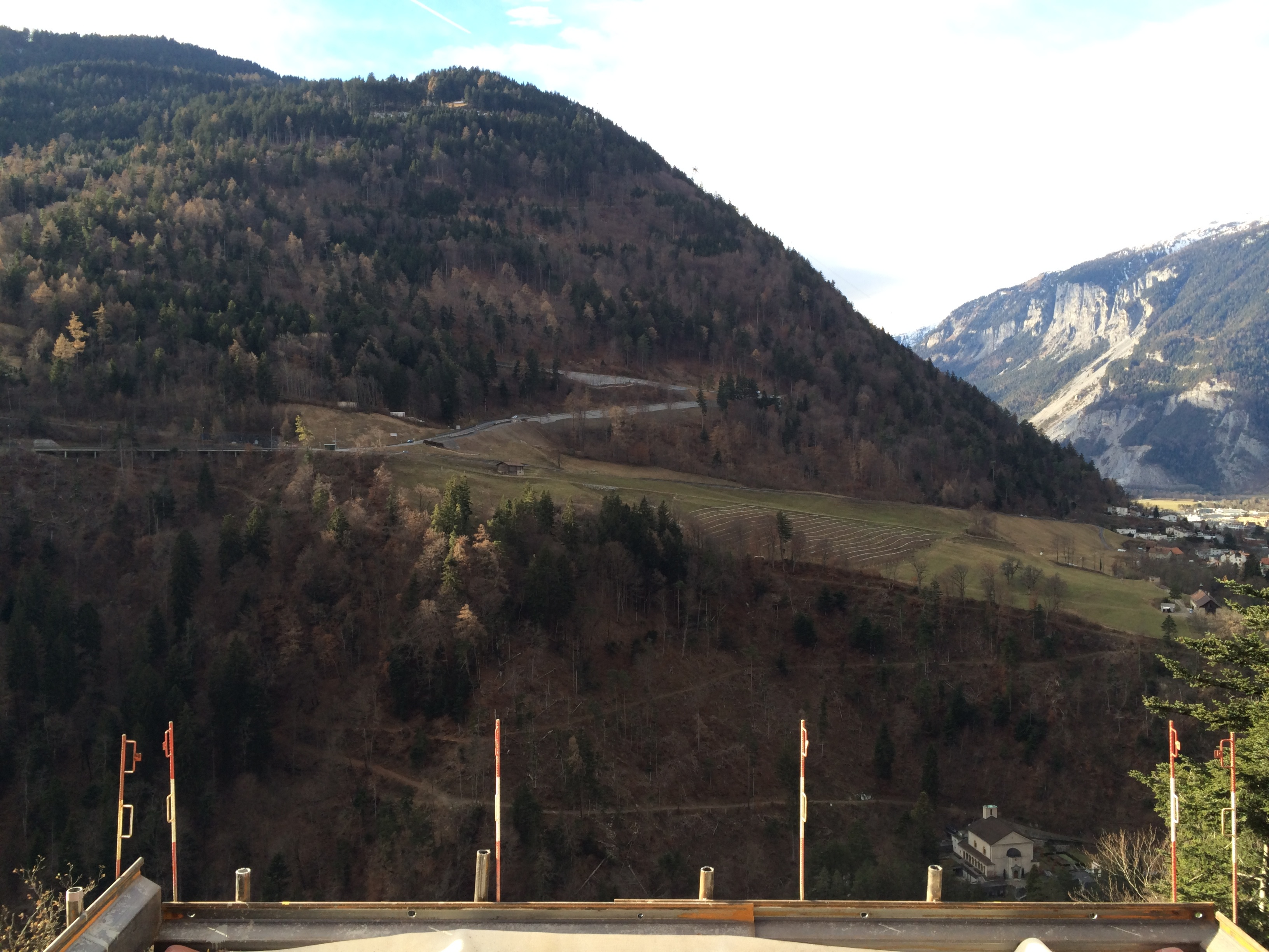 view from eastern end of projected St. Luzi Bridge to the other side at Chur, Switzerland